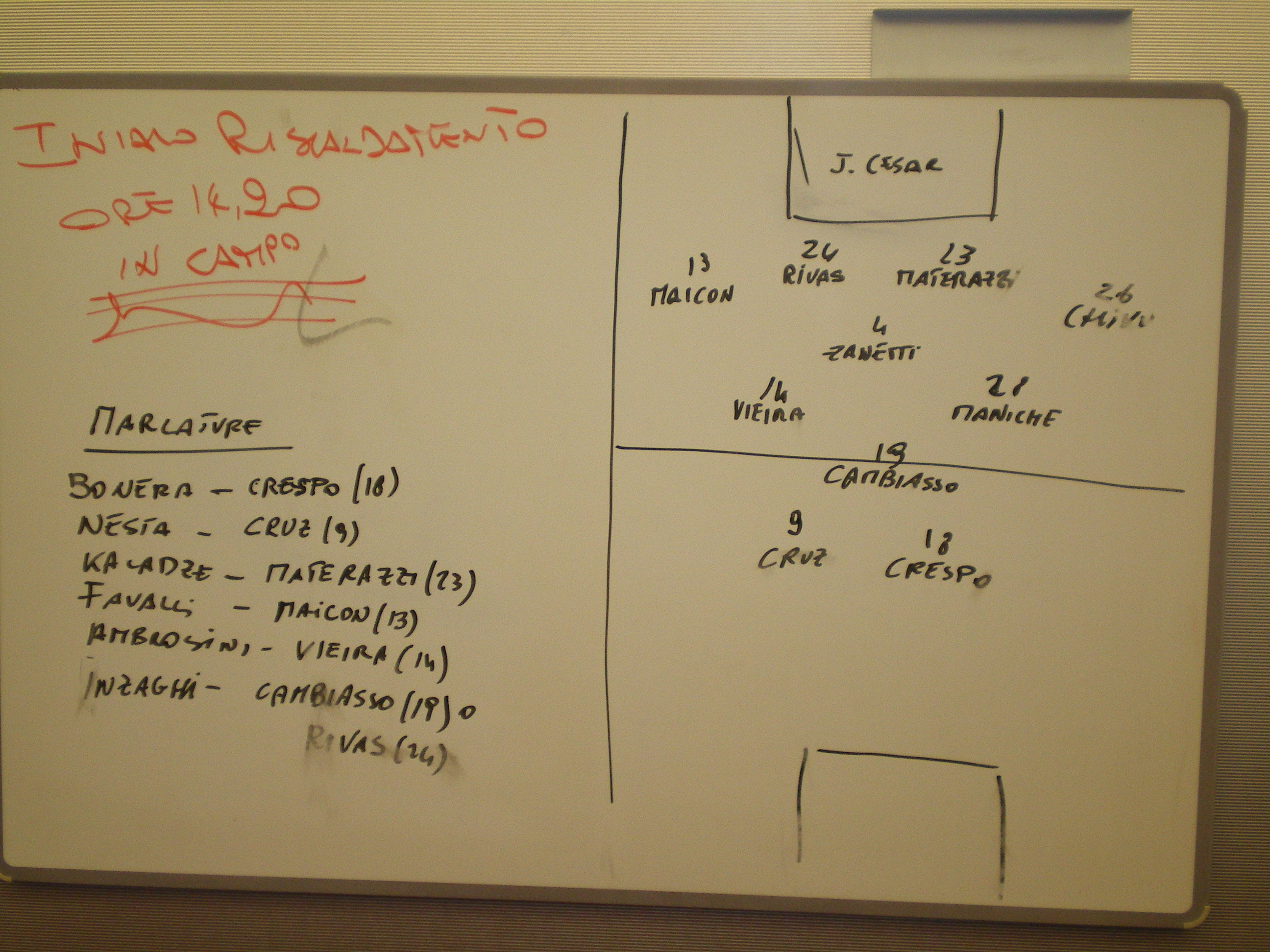 Tactical analysis of the Inter team by Carlo Ancelotti in the dressing room of AC Milan before the derby.